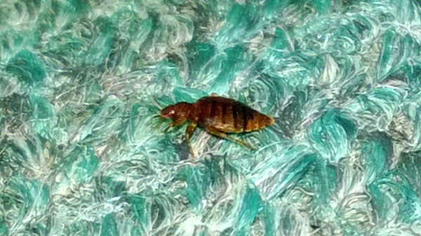 A bed bug found in a humid room, moving along pile of carpet.